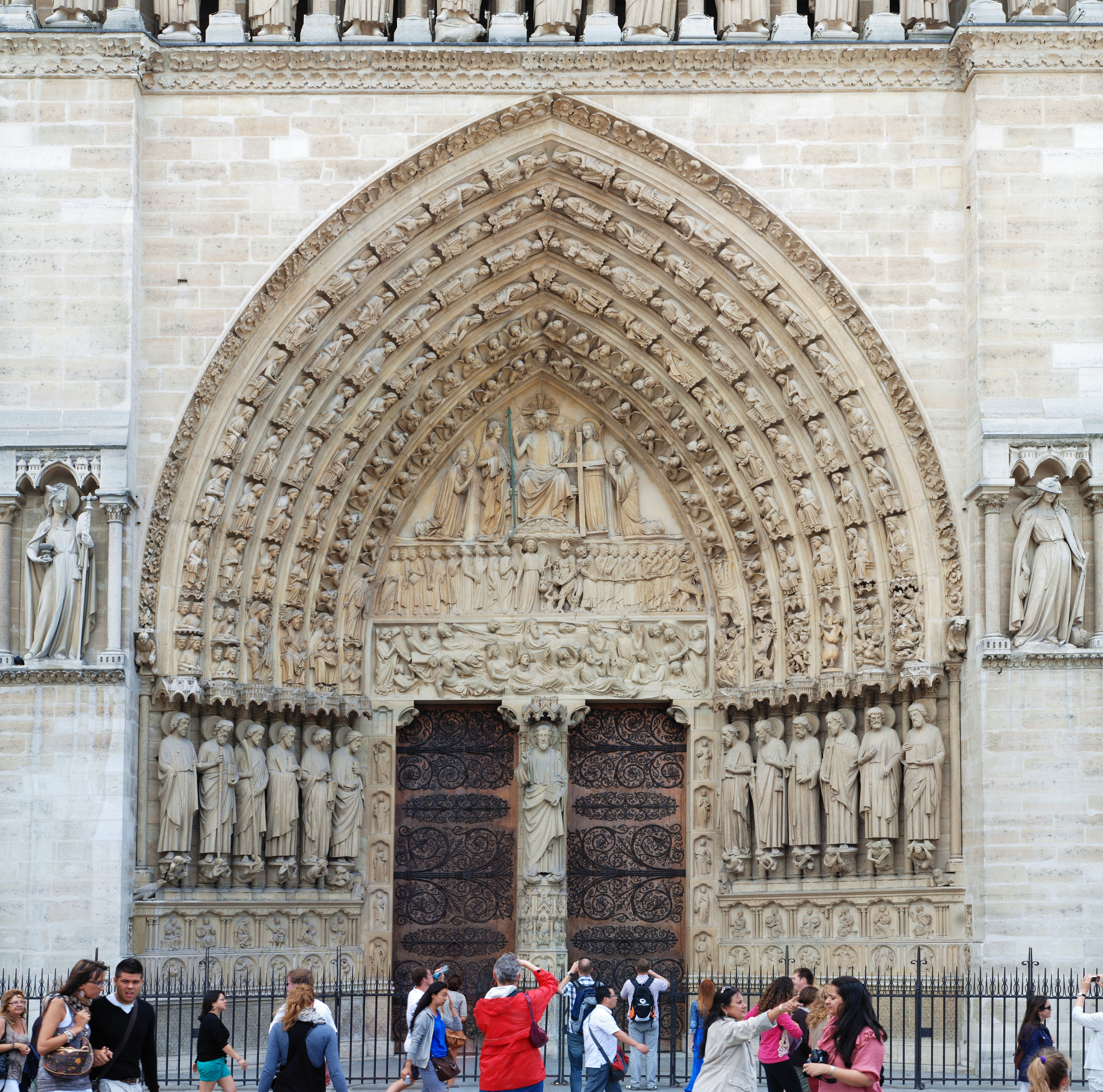 The main portal of Notre-Dame de Paris